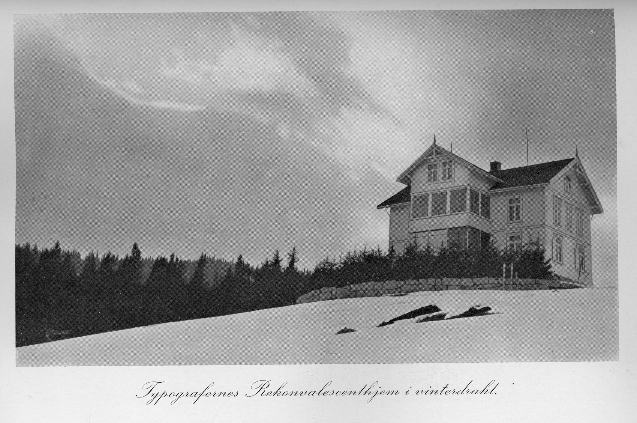 Picture of Seterbråten